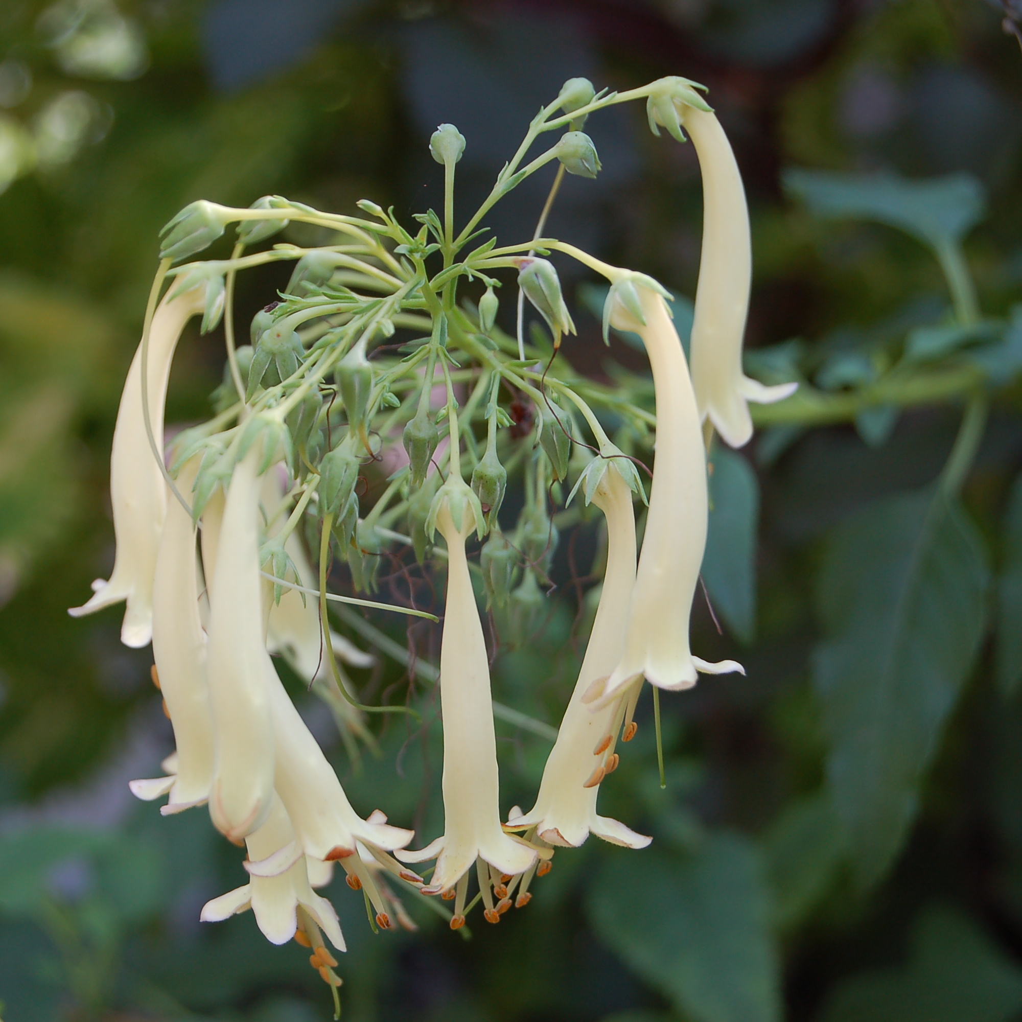 A picture of the flowers of the Phygelius x rectus en 'Moonraker' plant. Photo taken at the Chanticleer Garden in Pennsylvania, where it was identified.